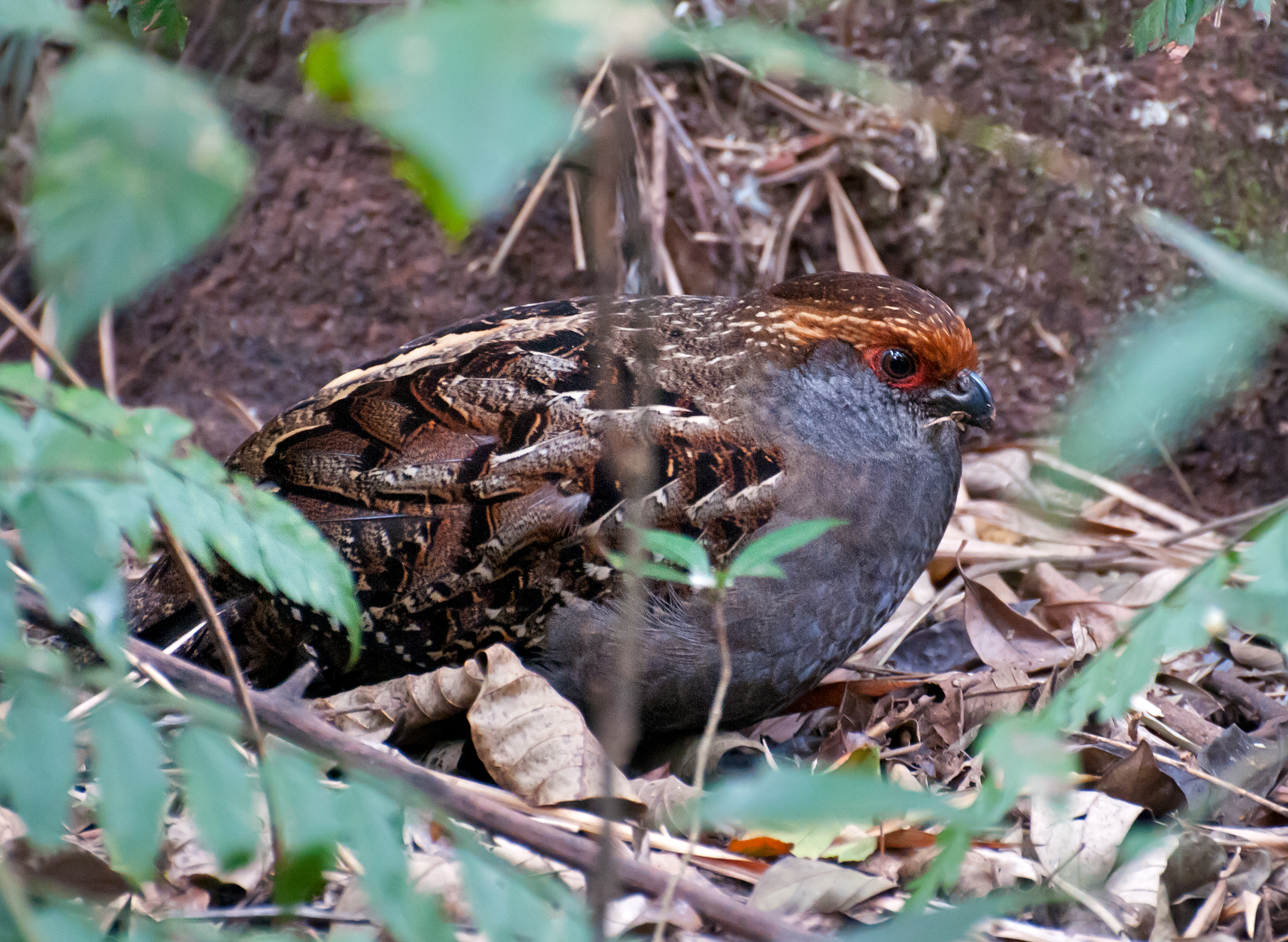 A Spot-winged Wood Quail in Parque Estadual da Serra da Cantareira, São Paulo, Brazil.